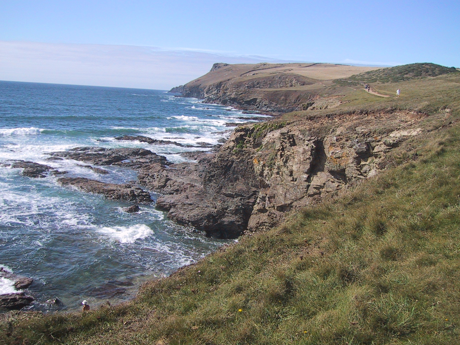 Pentire Point from Polzeath, Summer 2005.